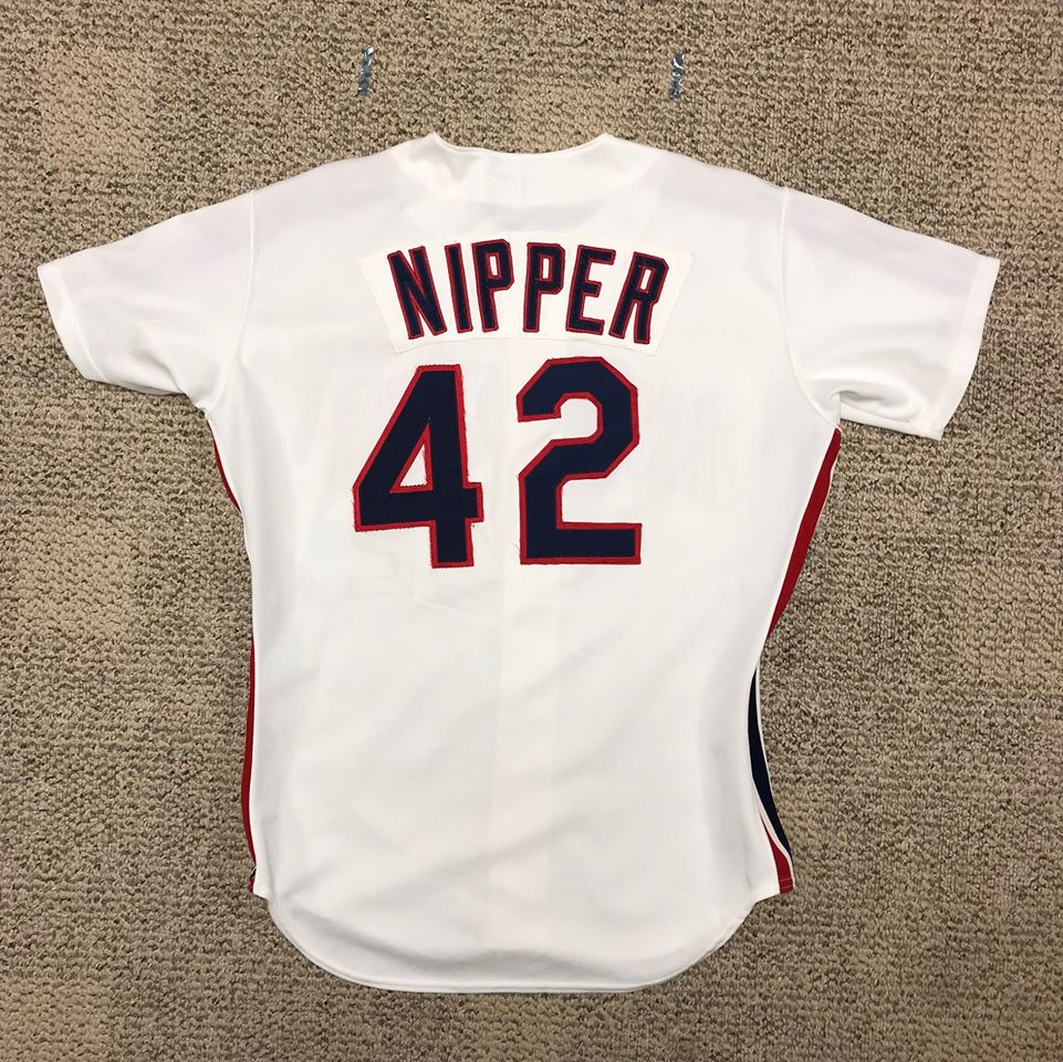 1990 Cleveland Indians #42 Al Nipper game worn home jersey restored and photographed by William F. Henderson who may be contacted through his website thedream.shop